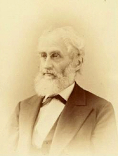 S. Wells Williams (1812-1884) Portrait